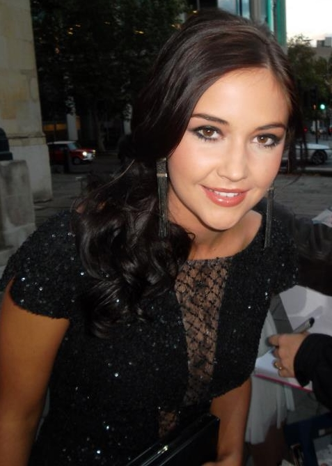 EastEnders actress Jacqueline Jossa at the 2012 Inside Soap Awards.